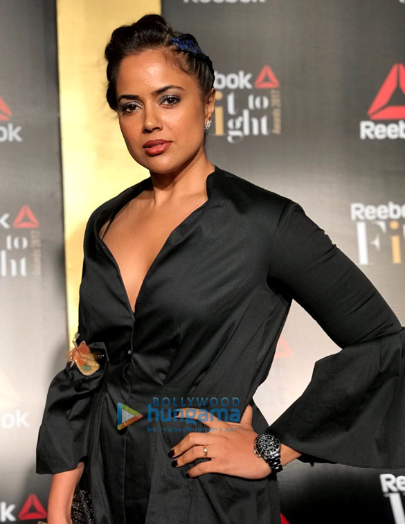 Sameera Reddy attends Reebok Fit to Fight event